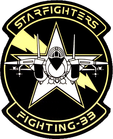 Insignia of the U.S. Navy Fighter Squadron 33 (VF-33) "Starfighters" in 1992.